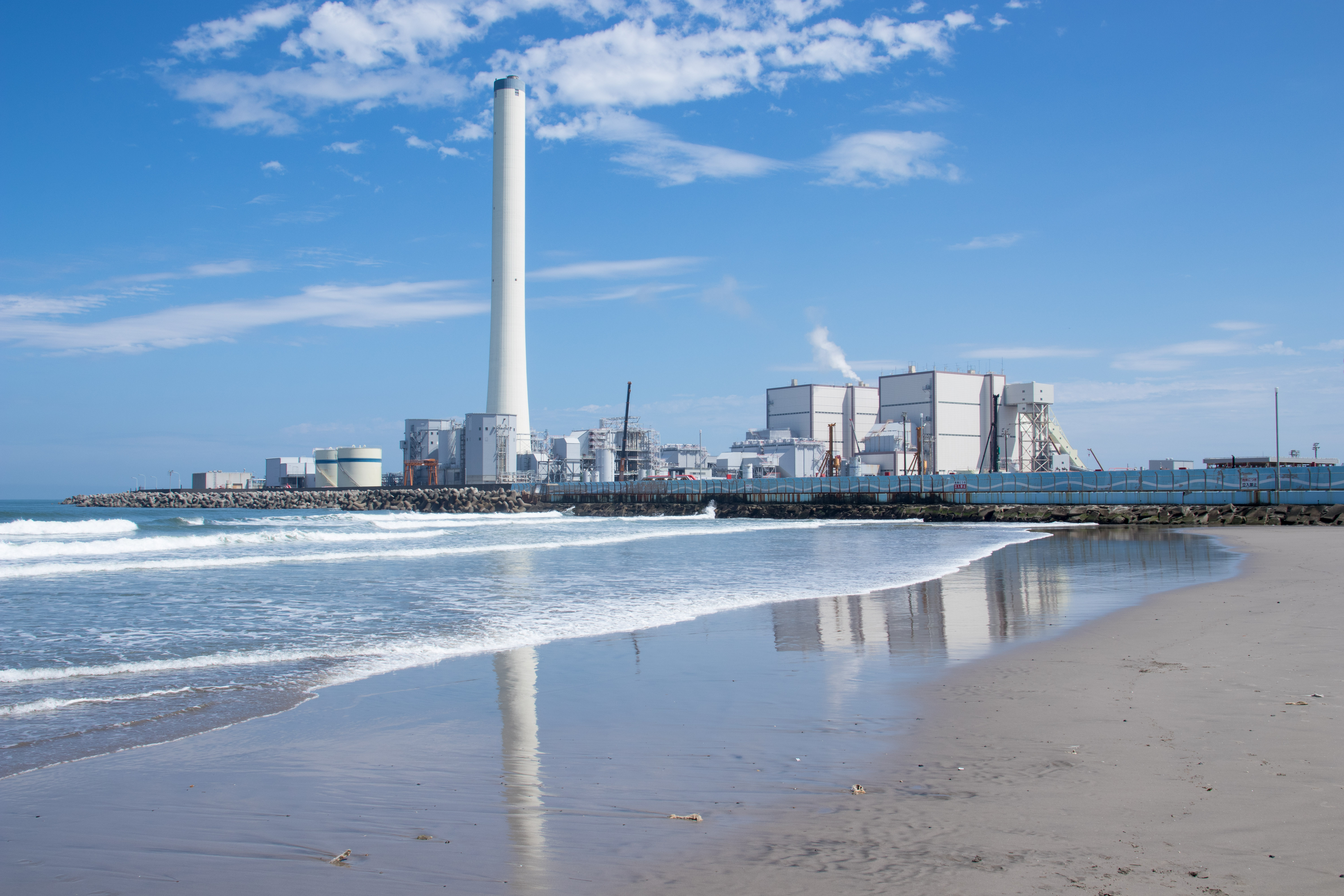 Hirono Thermal Power Plant, Fukushima Pref., Japan